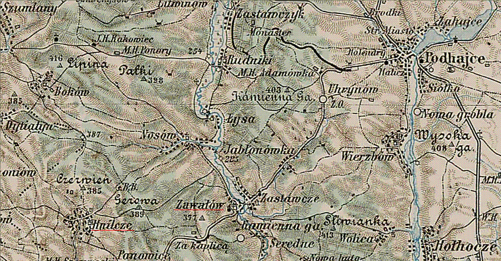 The area around Podhajce, Zawałów and Hnilne on a military Austrian map